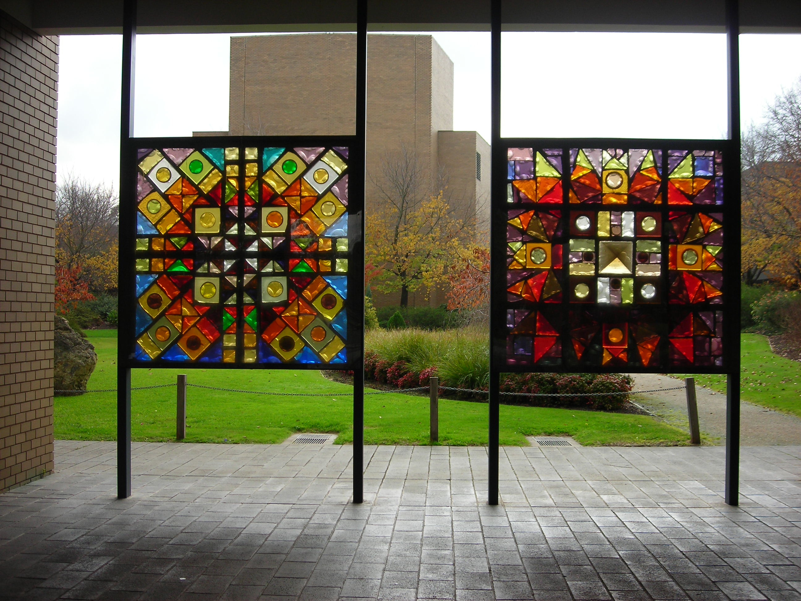 Stained glass panel The Four Seasons (1978) by Leonard French at La Trobe University Sculpture Park in Melbourne/Australia - The back of the David Hyde building is pretty cool. There are four stained glass panels that lead to a little park area.